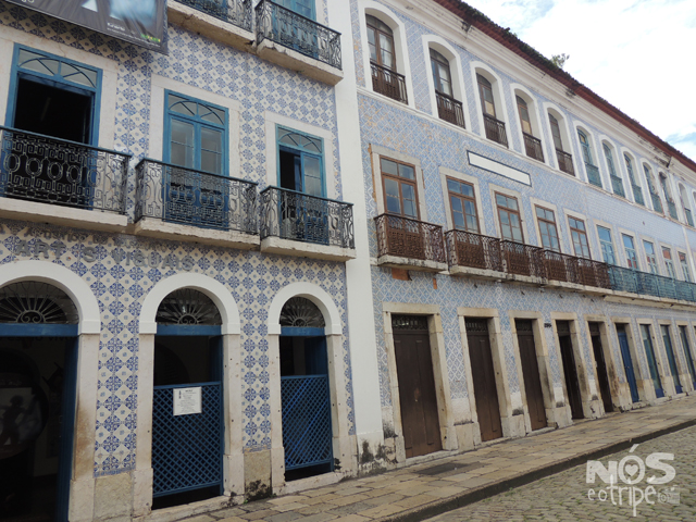 Centro Histórico de São Luís, Maranhão, Brasil